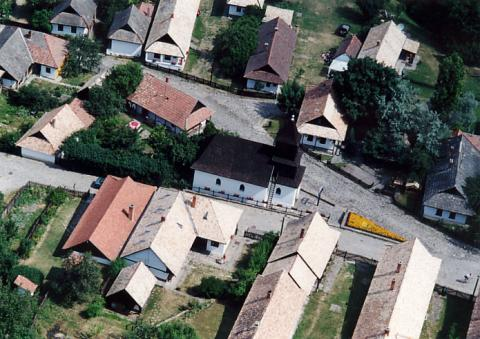 Hollókő, Hungary, aerialphotography